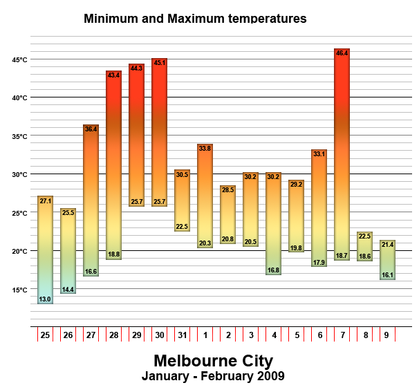 A graph of the minimum and maximum temperatures recorded in Melbourne City, Victoria during the 2009 Southeastern Australia heat wave.